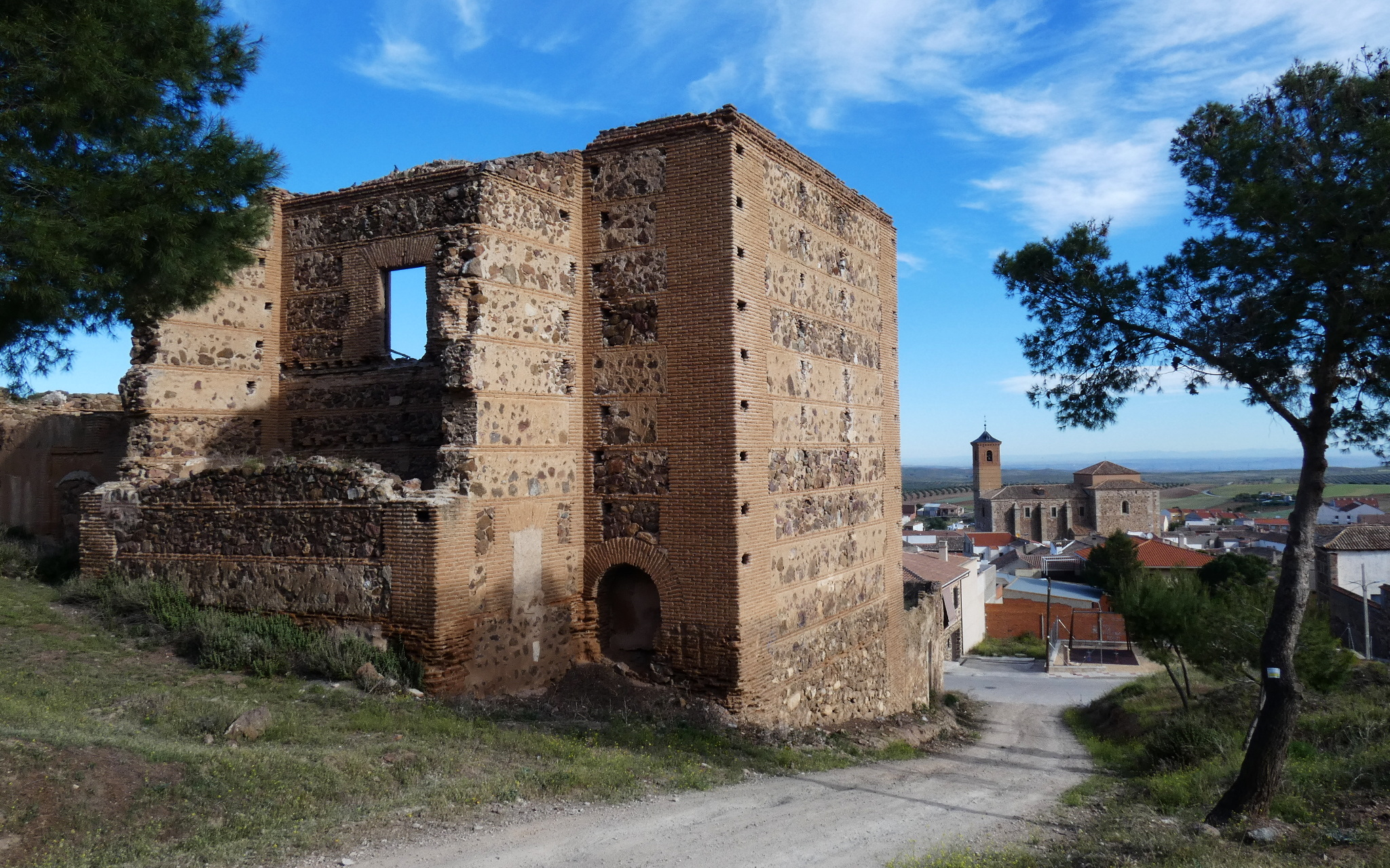 En primer plano la iglesia mudéjar del antiguo cementerio. Al fondo la actual iglesia parroquial (San Antonio Abad, S. XVI).